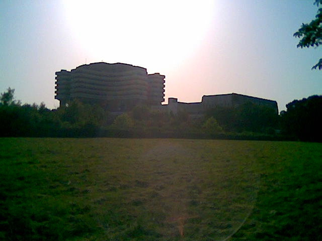 Military Medical Academy